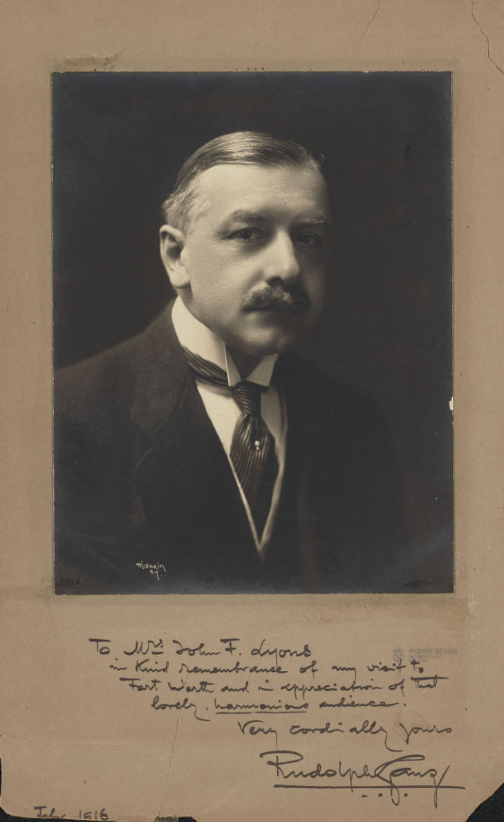 1916 portrait of Swiss pianist Rudolph Ganz, inscribed to Lucille Lyons of Fort Worth, Texas.